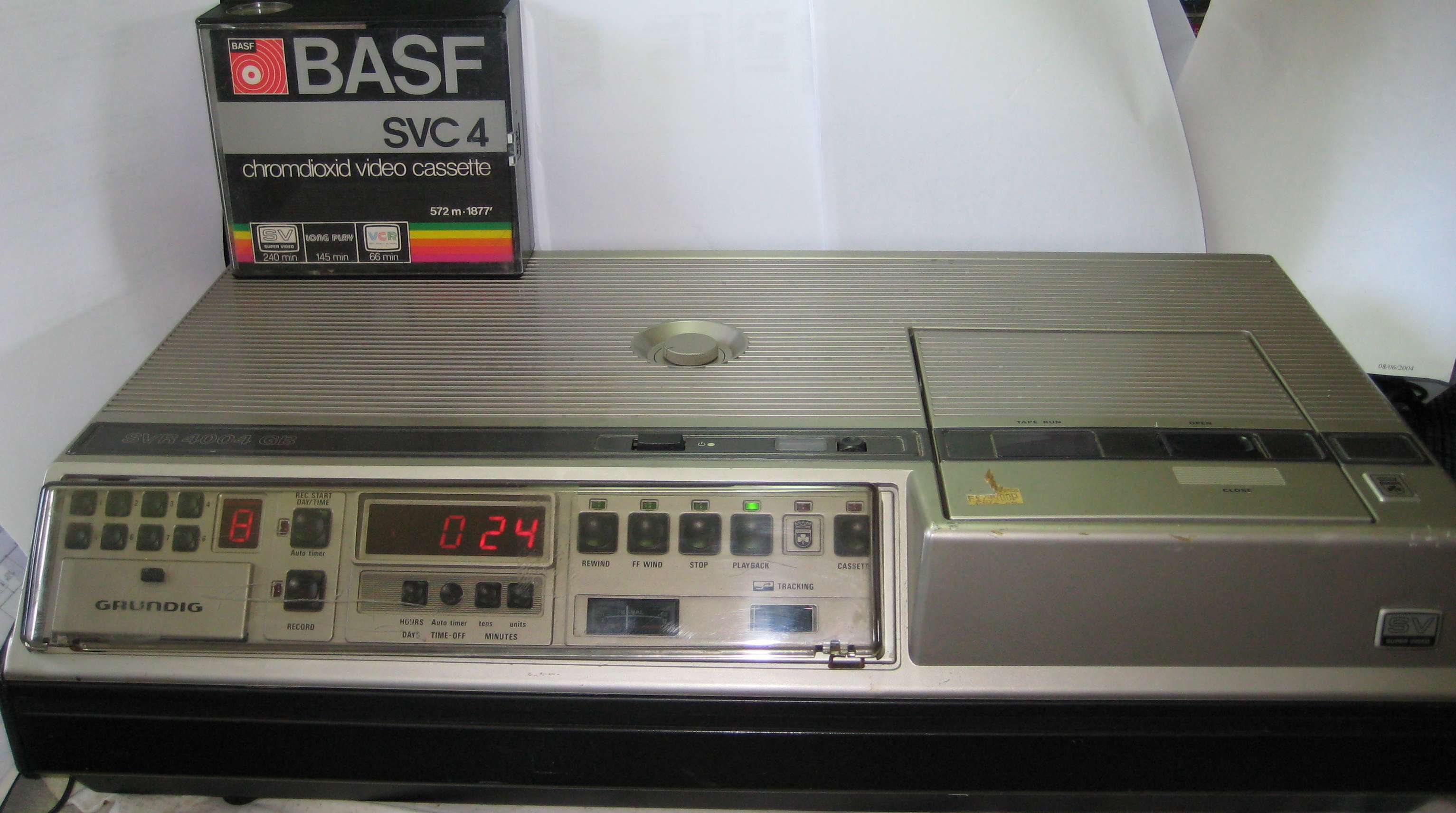 Grundig SVR format video recorder. This very rare, fully working machine is at and is still occasionally used for playback.